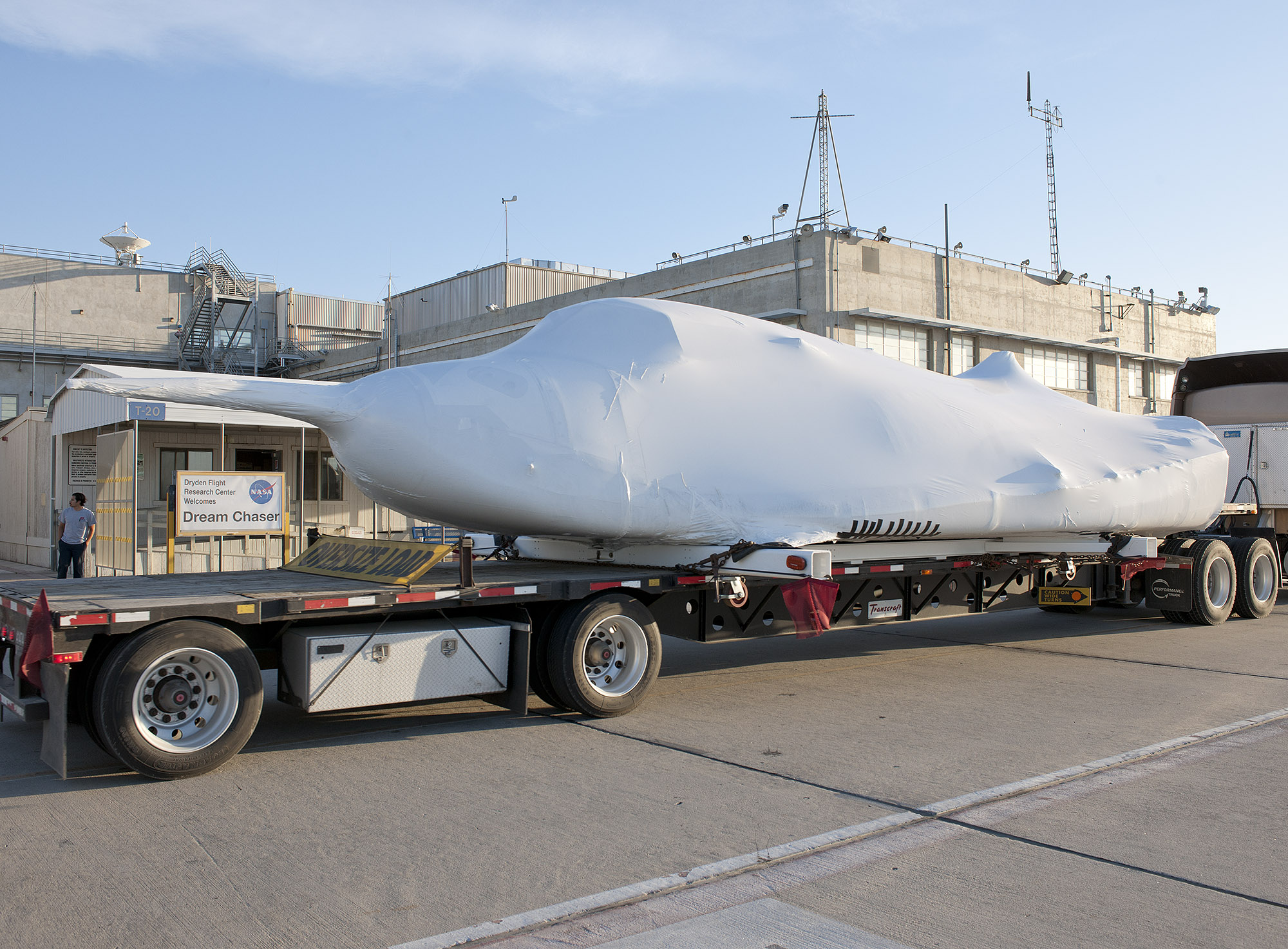 NASA's Dryden Flight Research Center welcomes SNC's Dream Chaser engineering test article for a flight test program in collaboration with NASA's Commercial Crew Program this summer.